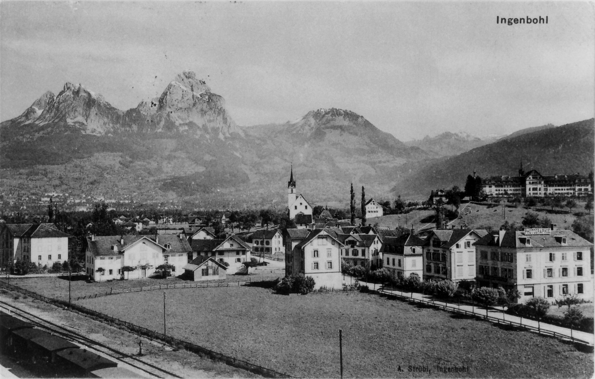 Photography of Ingenbohl (Switzerland) around 1900, Mythen mountains in the back.